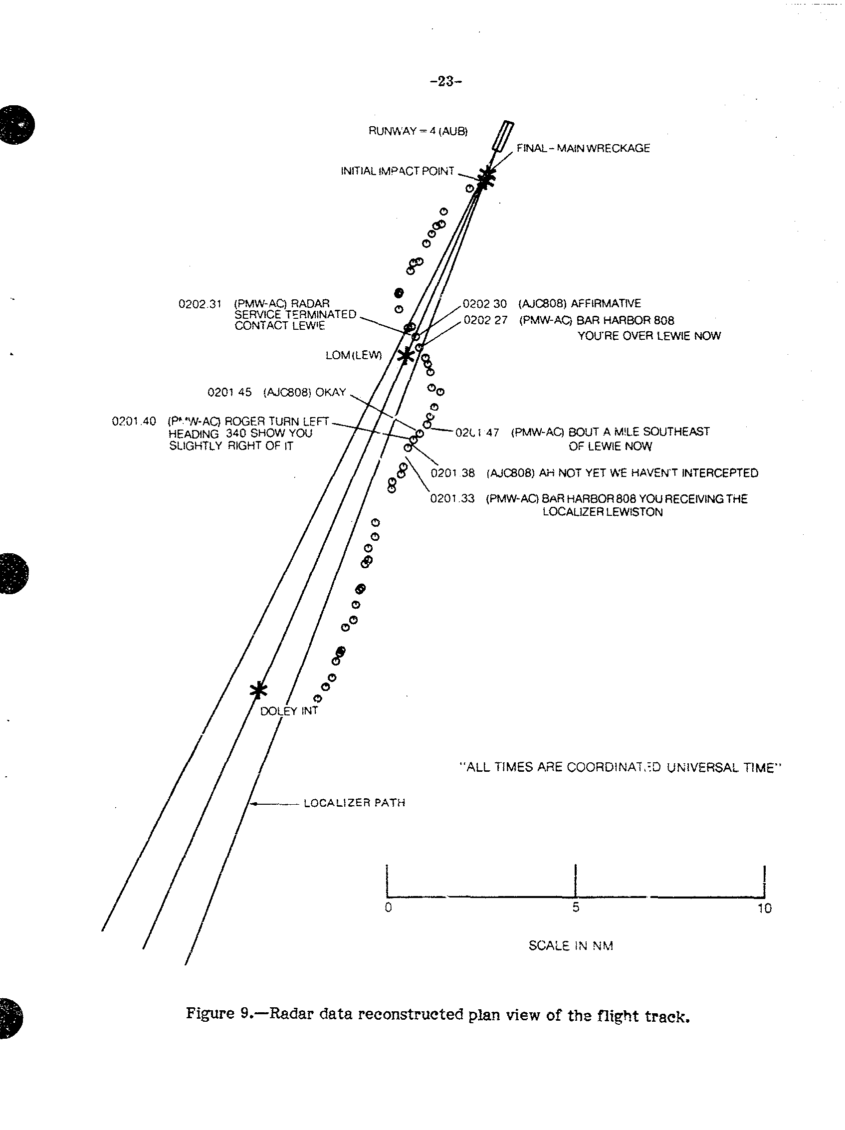 Radar data reconstructed plan view of the Bar Harbor Airlines Flight 1808 flight track. (Appendix from the NTSB Ofiicial Report). Bar Harbor Airlines Flight 1808 was a scheduled flight from Logan International Airport to Bangor International Airport in the United States on August 25, 1985. On final approach to Auburn/Lewiston Municipal Airport, the plane crashed short of the runway, killing all six passengers and two crew on board. Among the passengers was Samantha Smith, a thirteen-year-old American school girl who had become famous as a "Goodwill Ambassador" to the Soviet Union and who had been cast on the television show Lime Street.